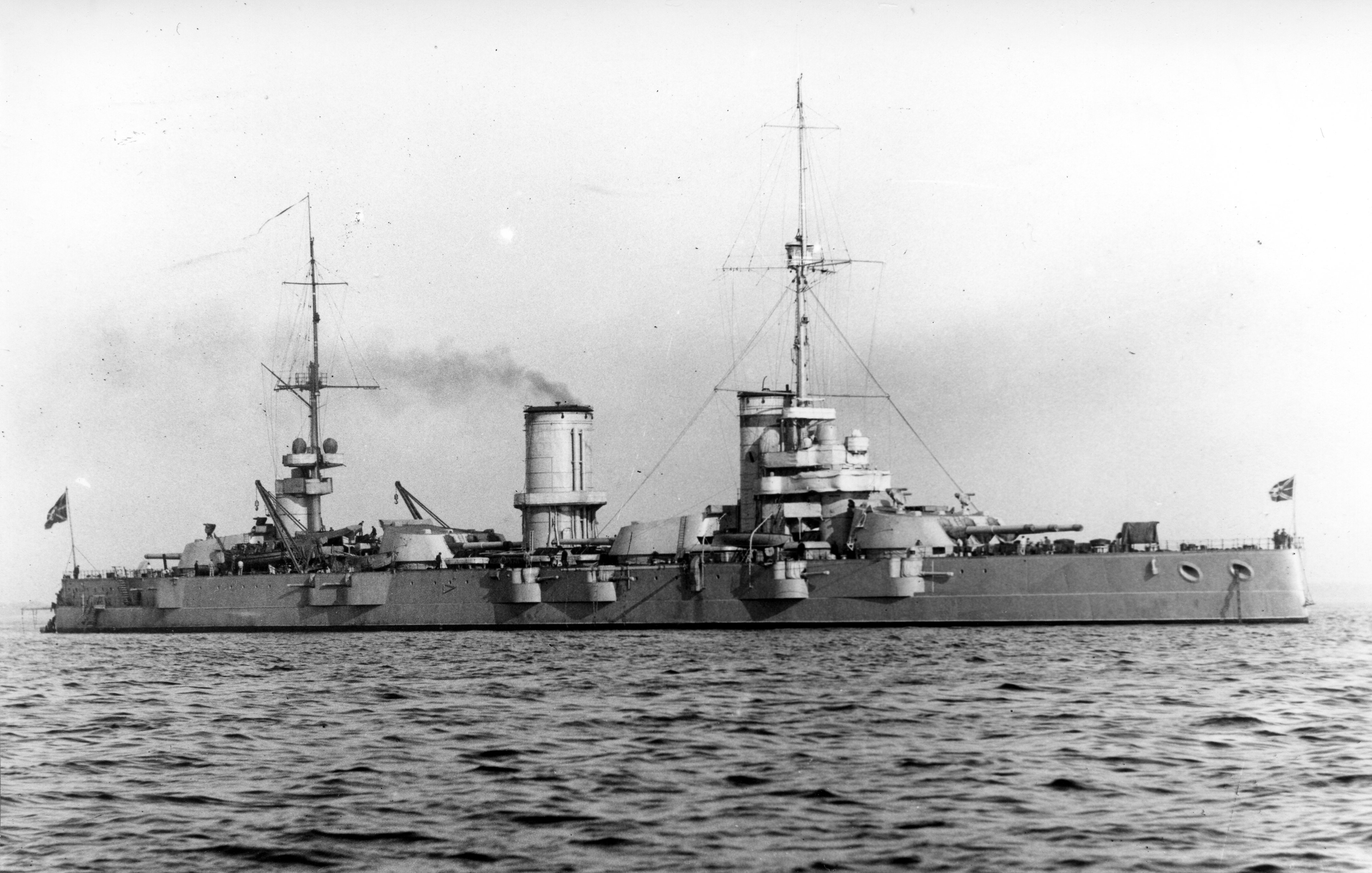 The Soviet battleship Marat, 1920s.